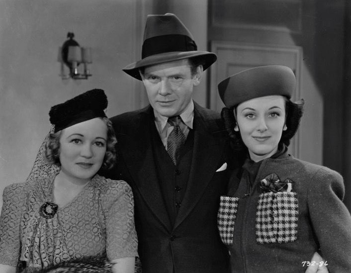 L. to R. : Wynne Gibson, Charles Bickford & Ann Dvorak in Gangs of New York - publicity still